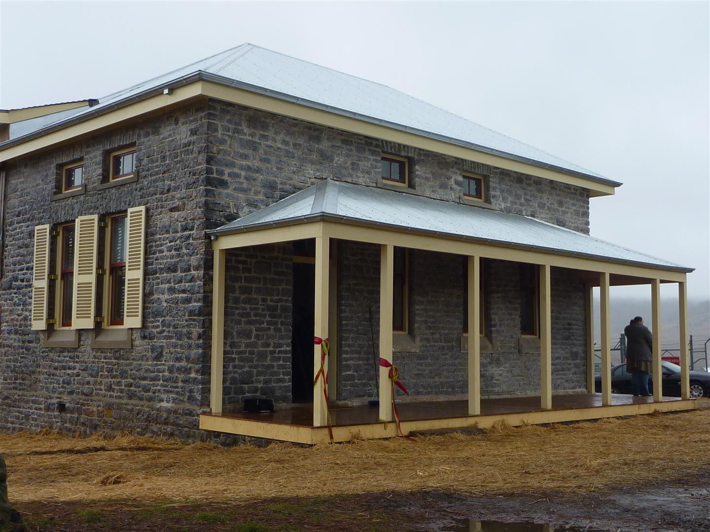 A view of the courthouse shortly after the restoration opening ceremony, with the opening ribbon still visible.